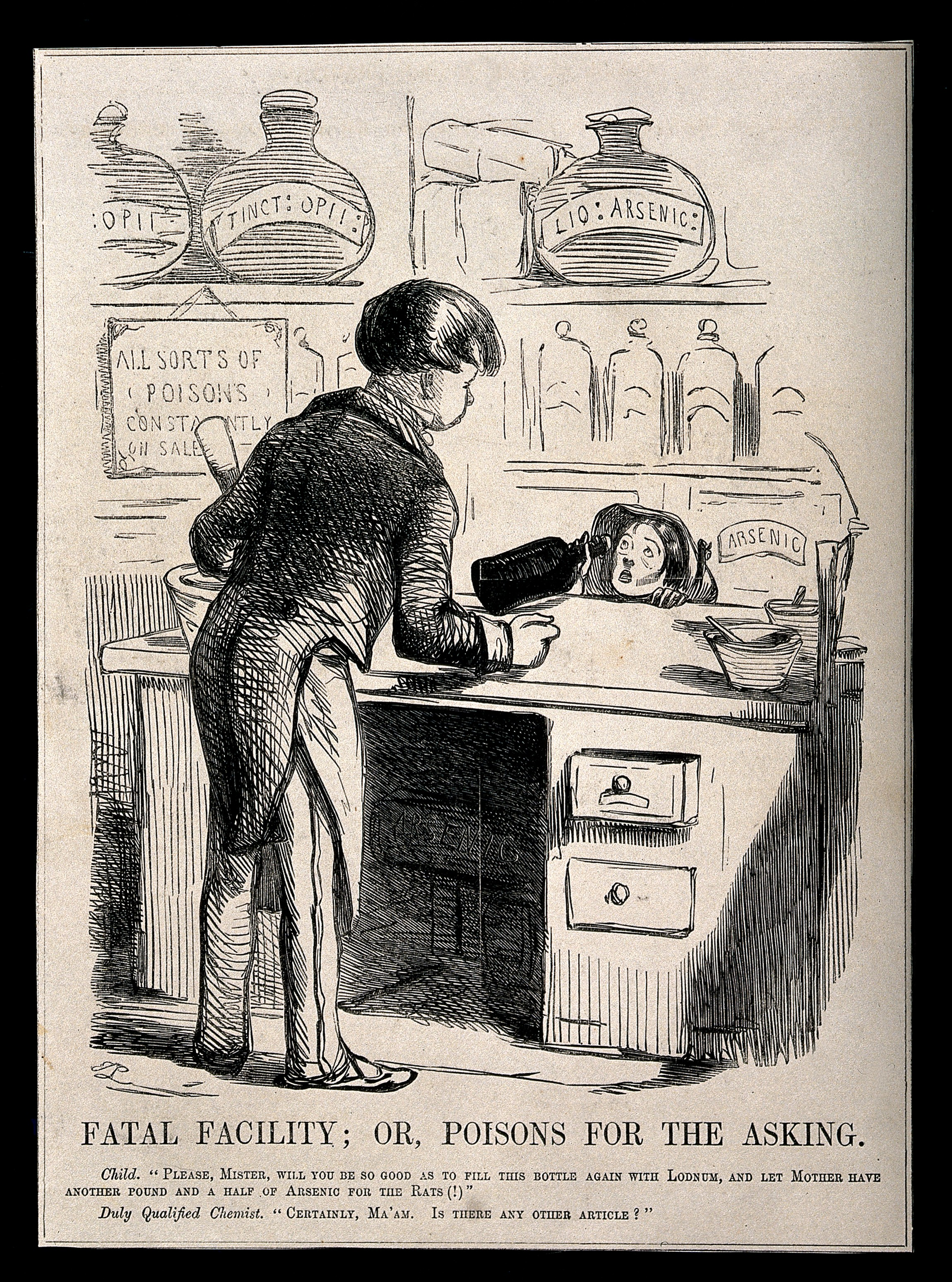 An unscrupulous chemist selling a child arsenic and laudanum. Wood engraving after J. Leech. Iconographic Collections Keywords: John Leech